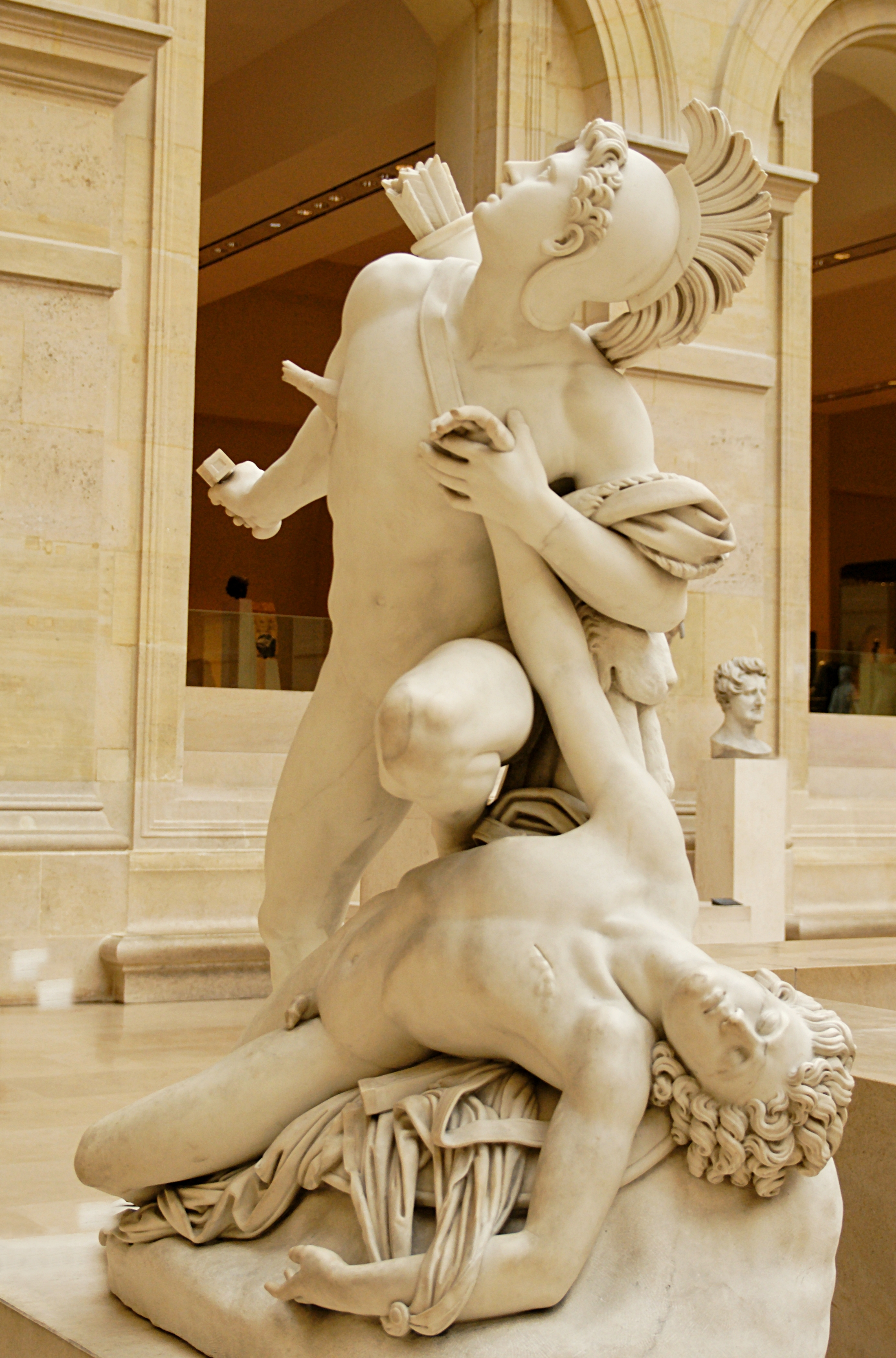 Nisus and Euryalus. Marble, exhibited at the 1827 Salon. A plaster model was exhibited at the 1822 Salon.